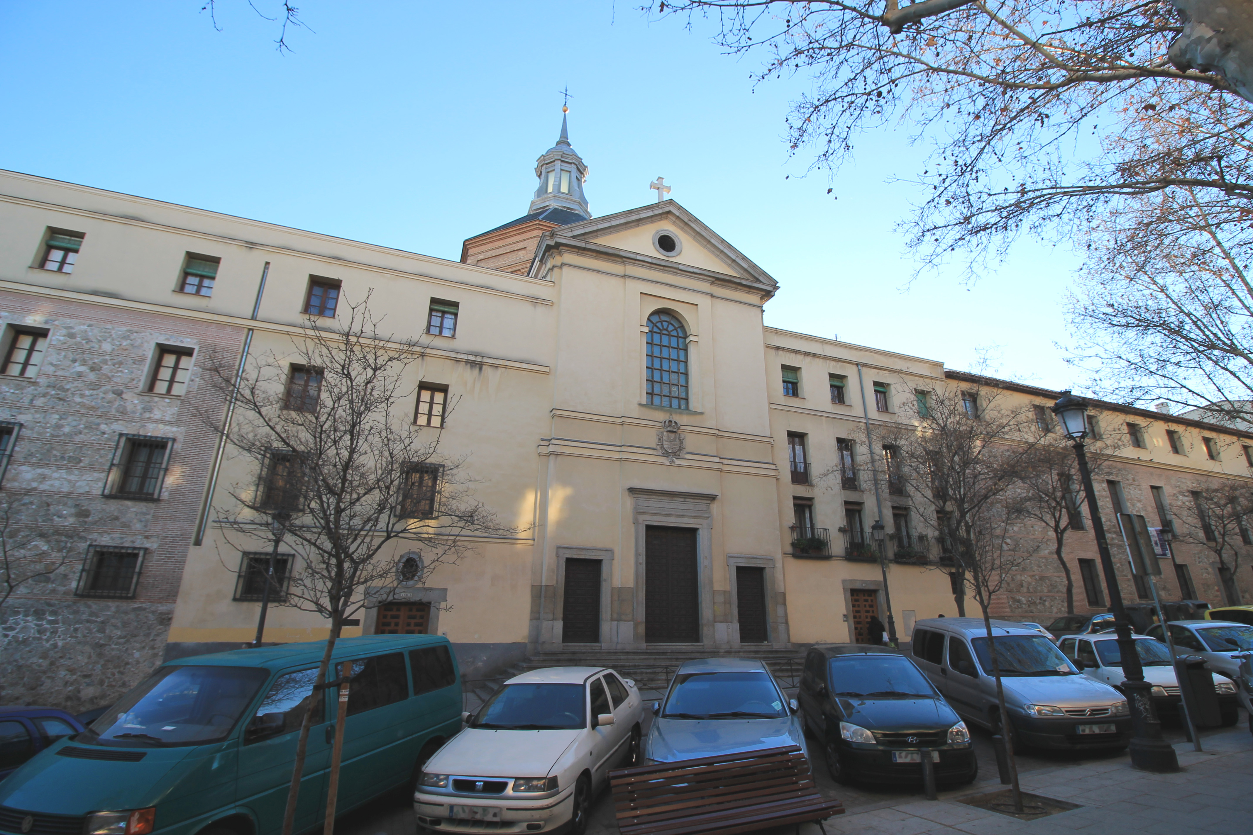 Church of Real Monasterio de Santa Isabel (a convent) in Madrid (Spain).